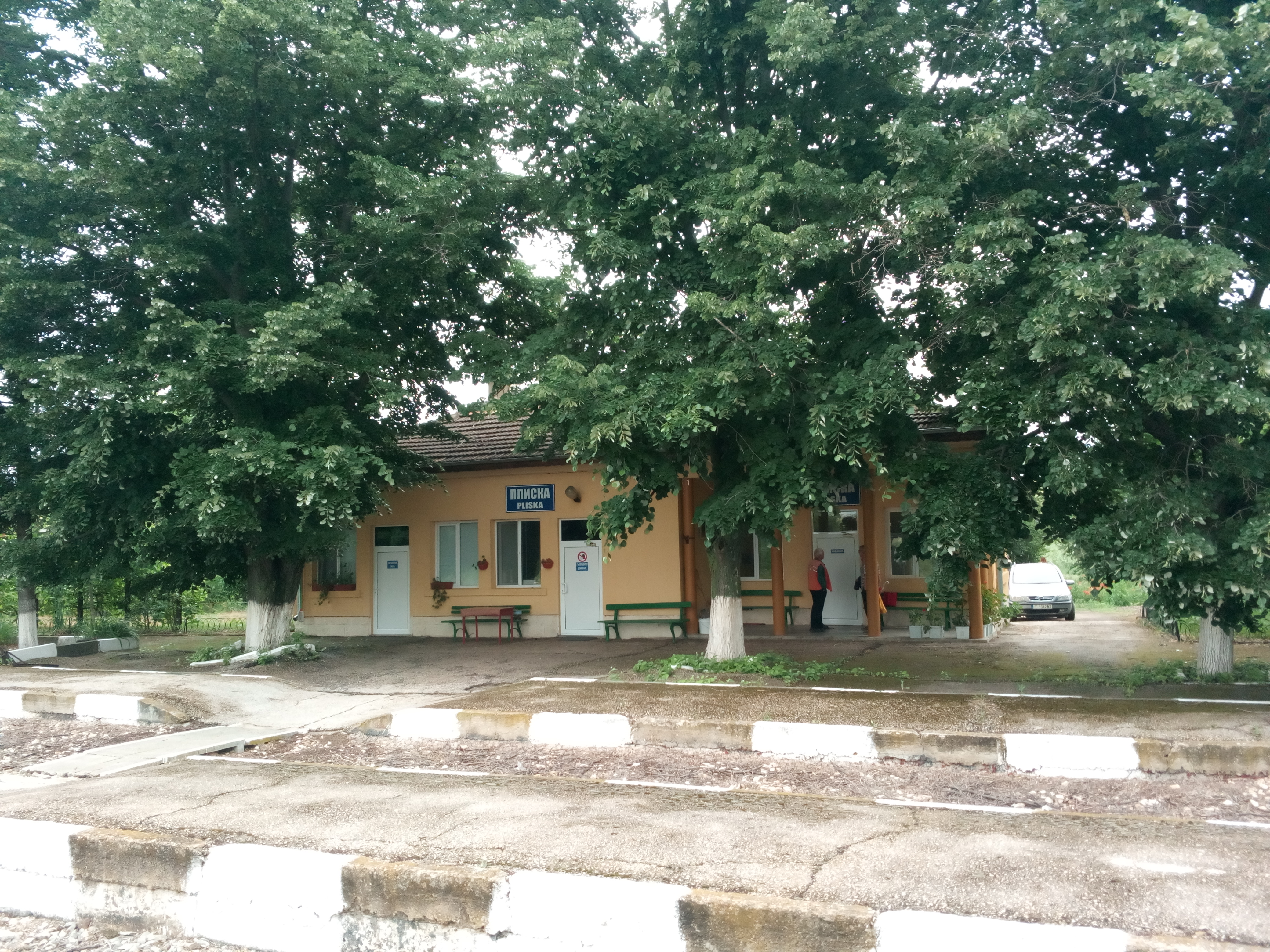 Pliska Train station,Bulgaria